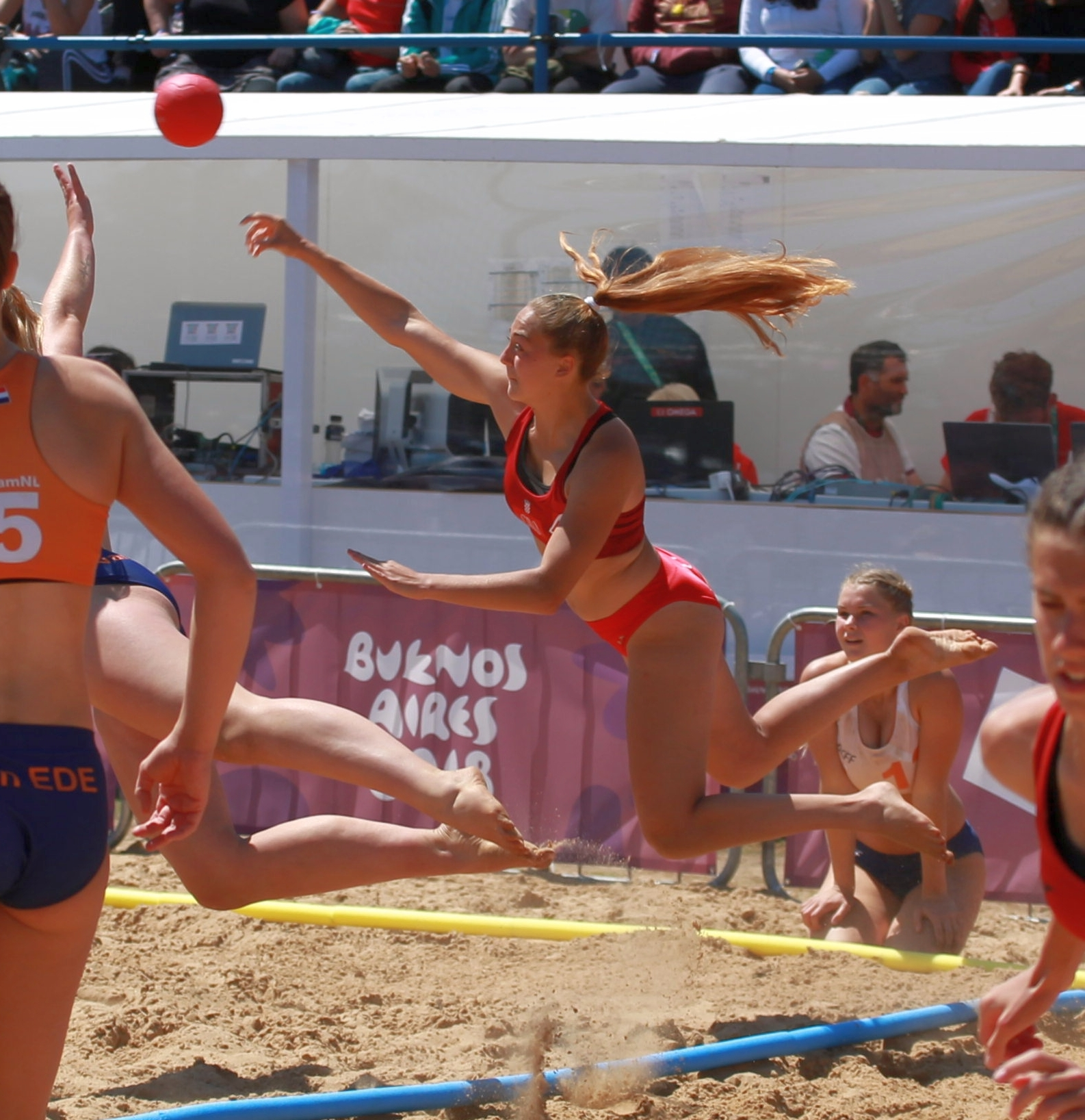 Beach handball at the 2018 Summer Youth Olympics in Buenos Aires at 13 October 2018 – Girls Semifinal – Netherlands-Croatia 0:2